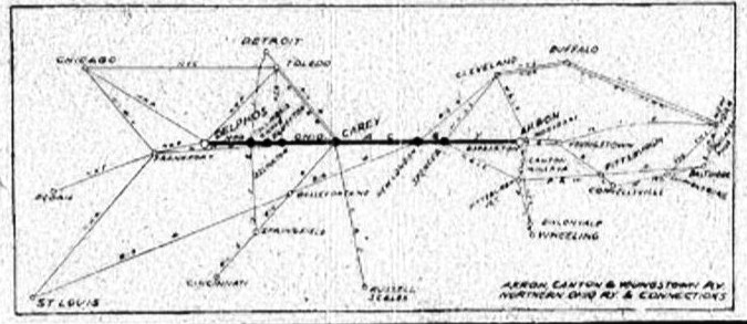 Matchbook cover containing map of the service route of the Akron, Canton and Youngstown Railroad.